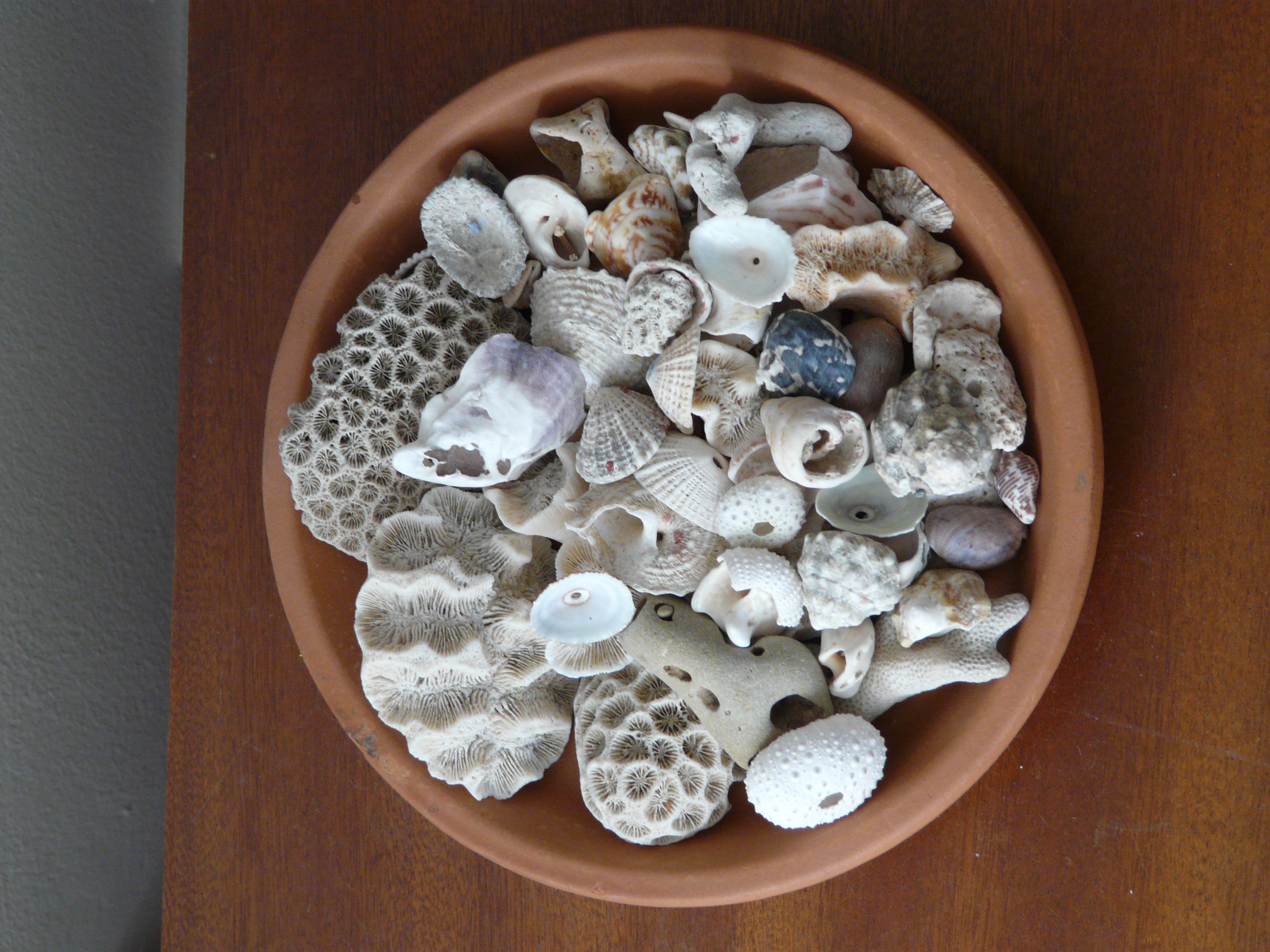 Beach drift gastropod shells, echinoderm tests and coral pieces from various areas including the Mediterranean